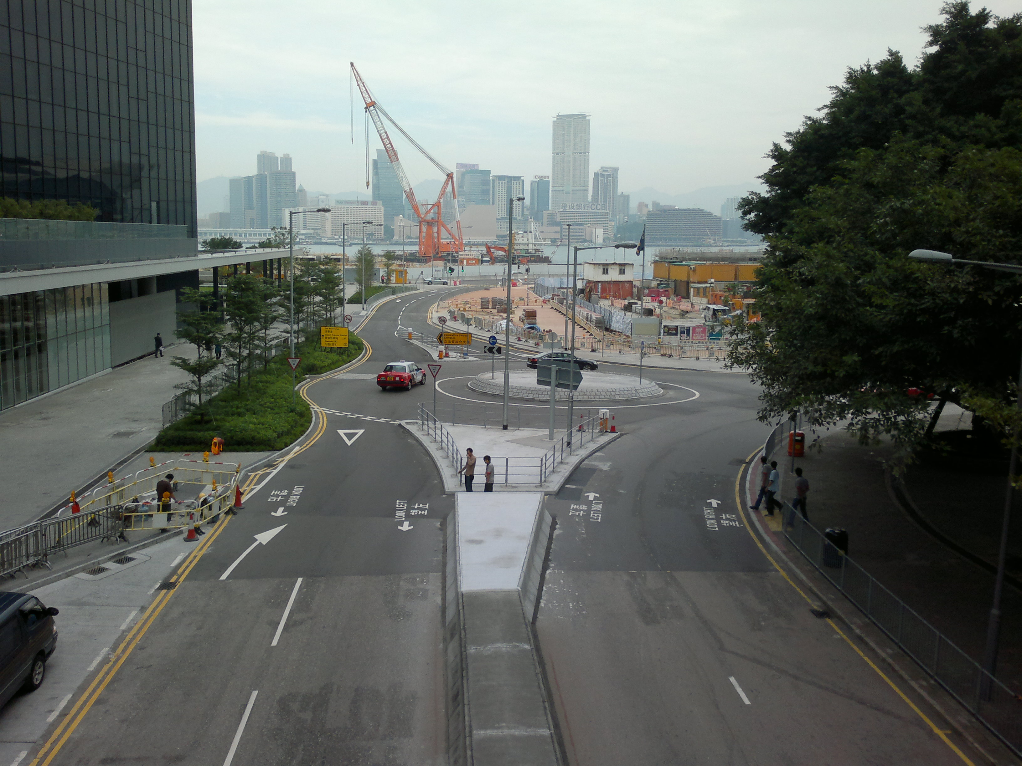 Legislative Council Road near Tim Mei Avenue